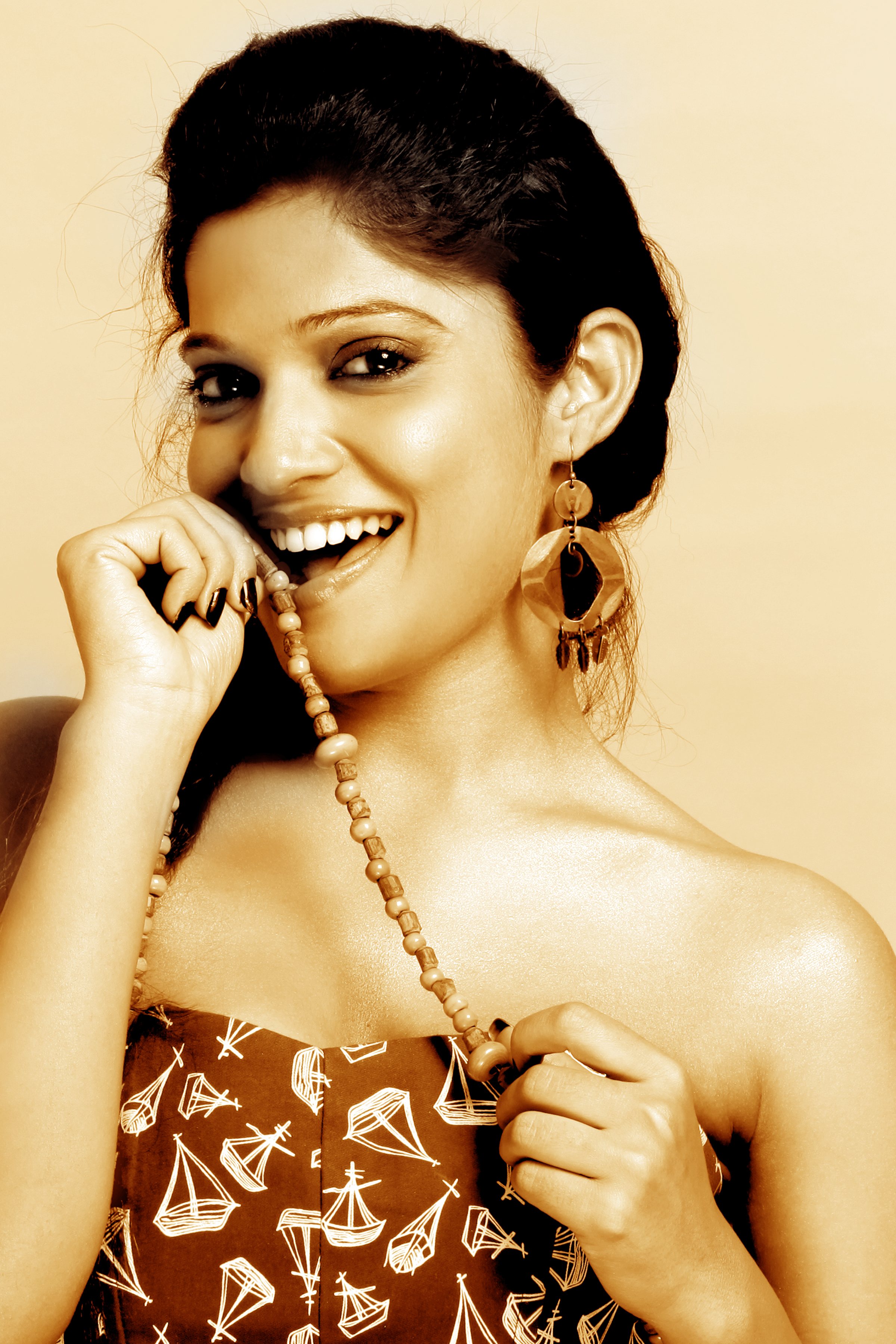 I want to create a niche in tinsel town and to study the process of film making and want to make a movie some time in future – a movie that will be purely my expression of cinema